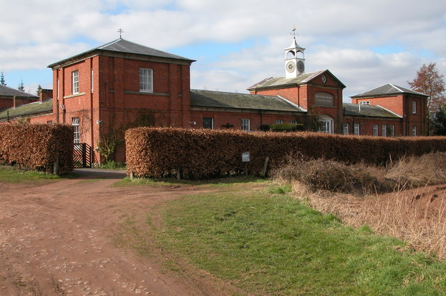 Glasshampton Monastery. Built around 1810 as stables to a long gone house, the building is now a monastery and house of prayer of the Society of Saint Francis.